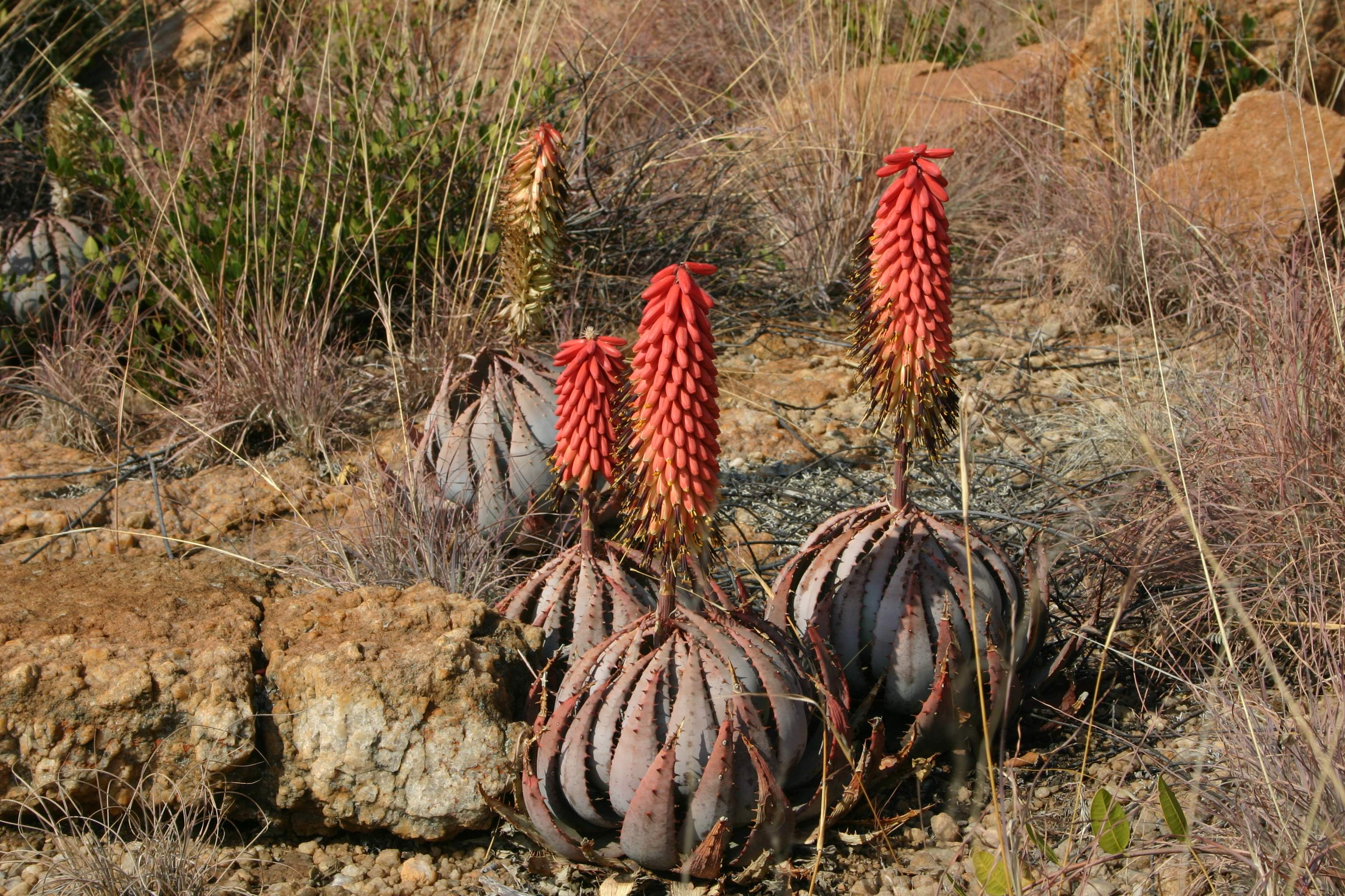 Aloe peglerae in flower on north slope of Magaliesberg at Hamerkop